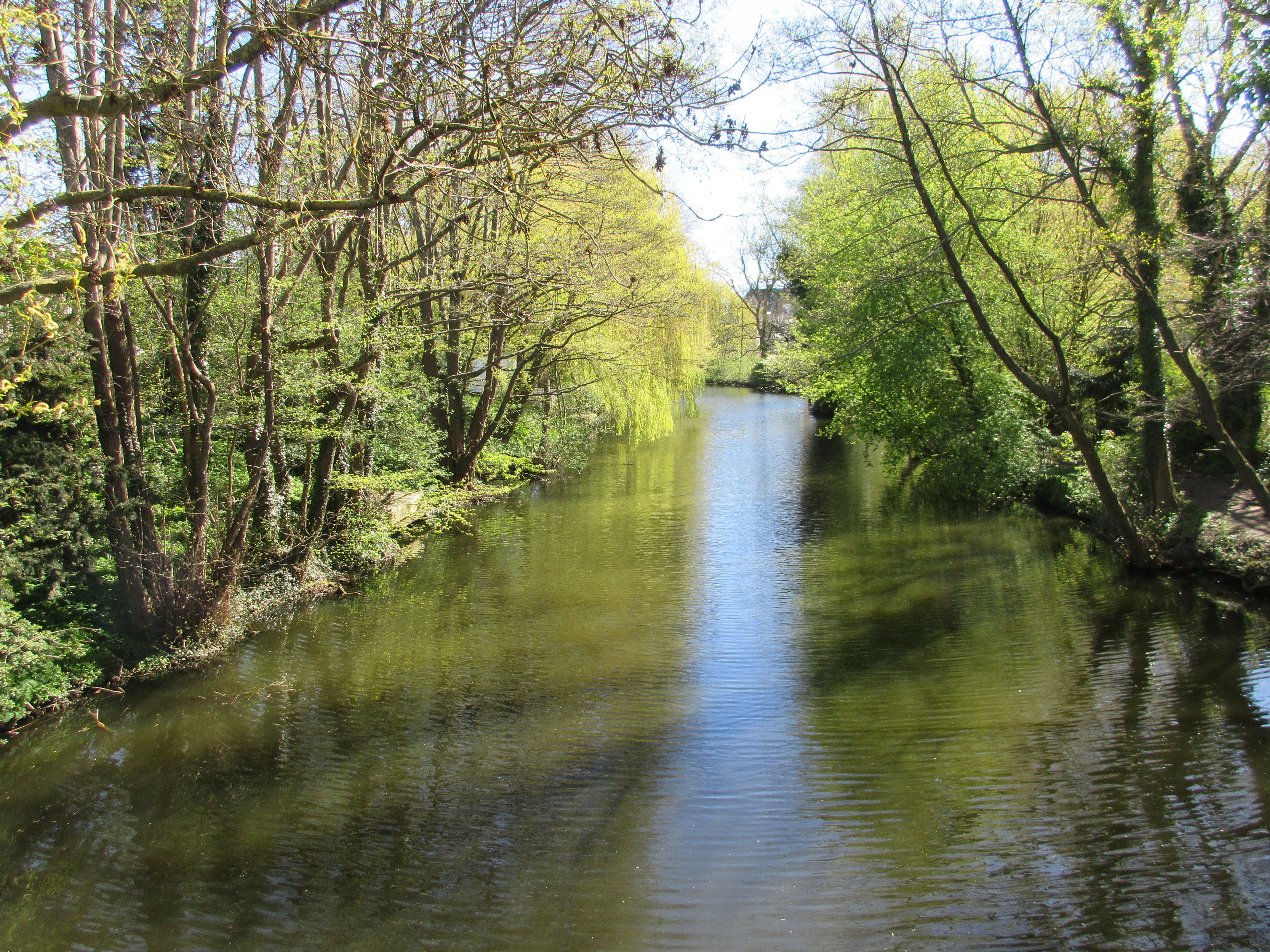 Fæstningskanalen in Lyngby, Denmark